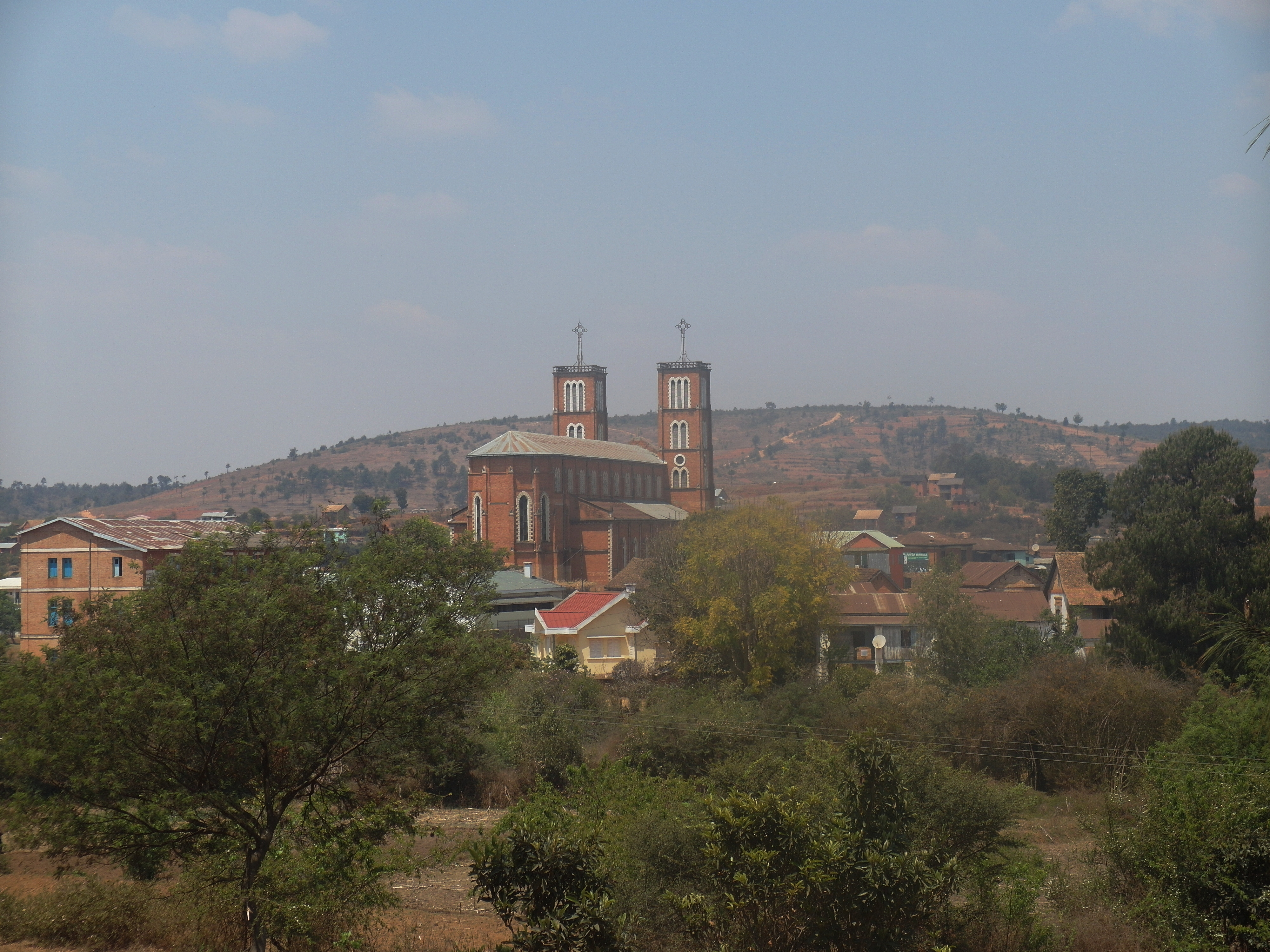 Notre Dame de la Salette Church